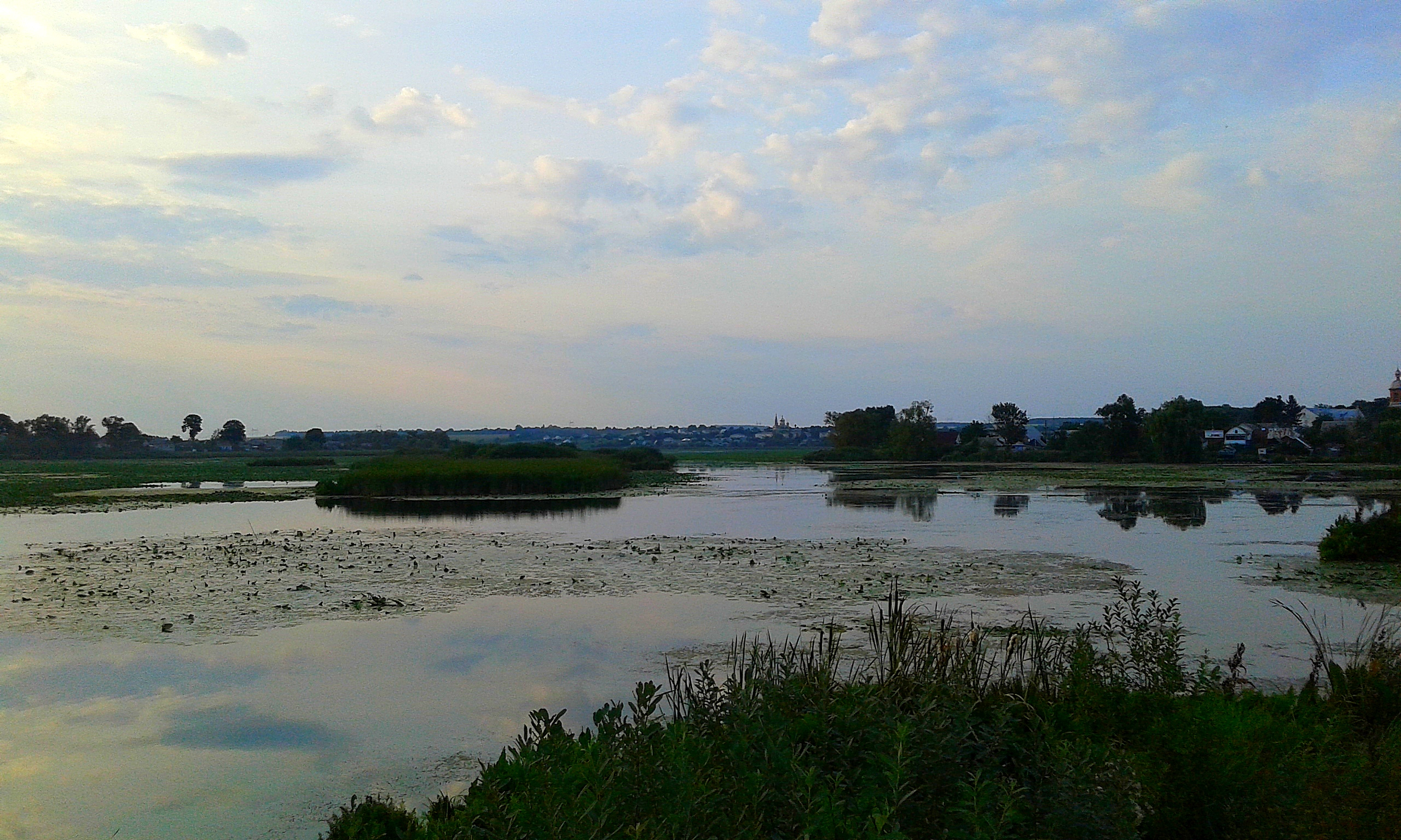 PANORAMIC VIEW ON RIV RIVER IN CITY OF BAR REGION OF VINNYTSIA STATE OF UKRAINE AT SUNSET TIME 20170826